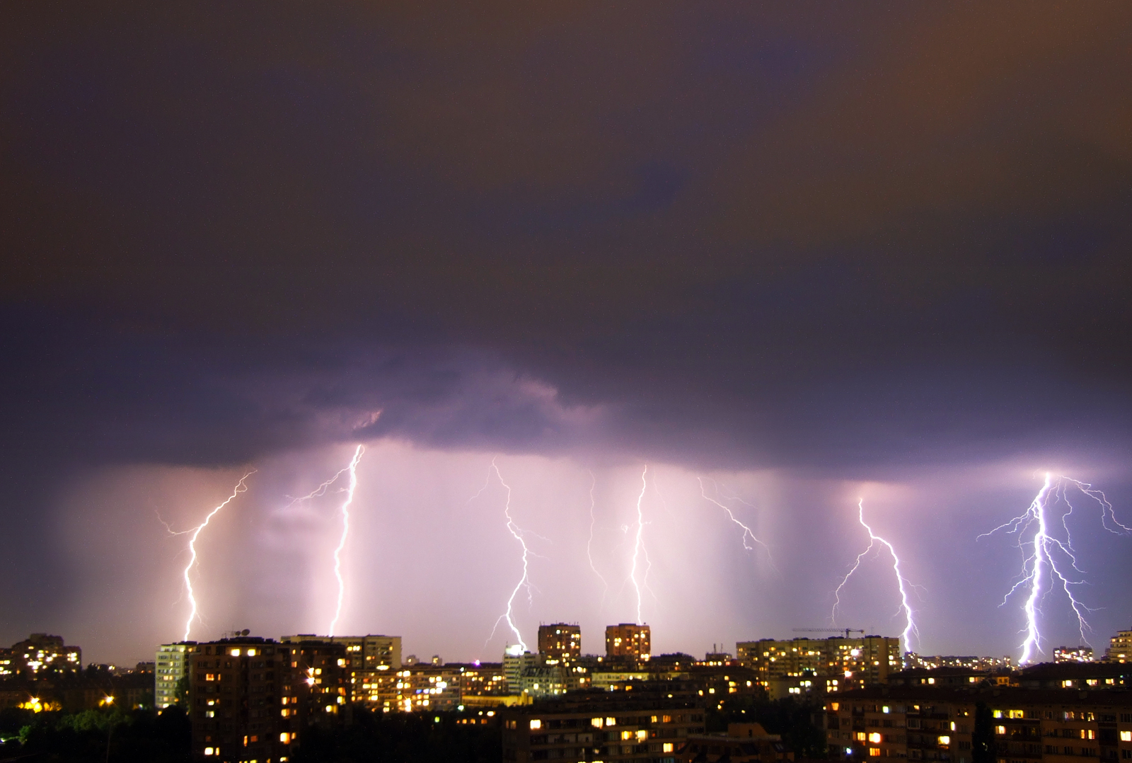 Amazing frequency that night - 2 to 5 lightning strikes each 10 seconds! Those three images are actually composites of 2-3 photos each, made with Autopano Pro (used for aligning the shots and rendering to layered PSD file).